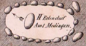 Megalithic tomb near Edendorf, Sprockhoff-No. 750